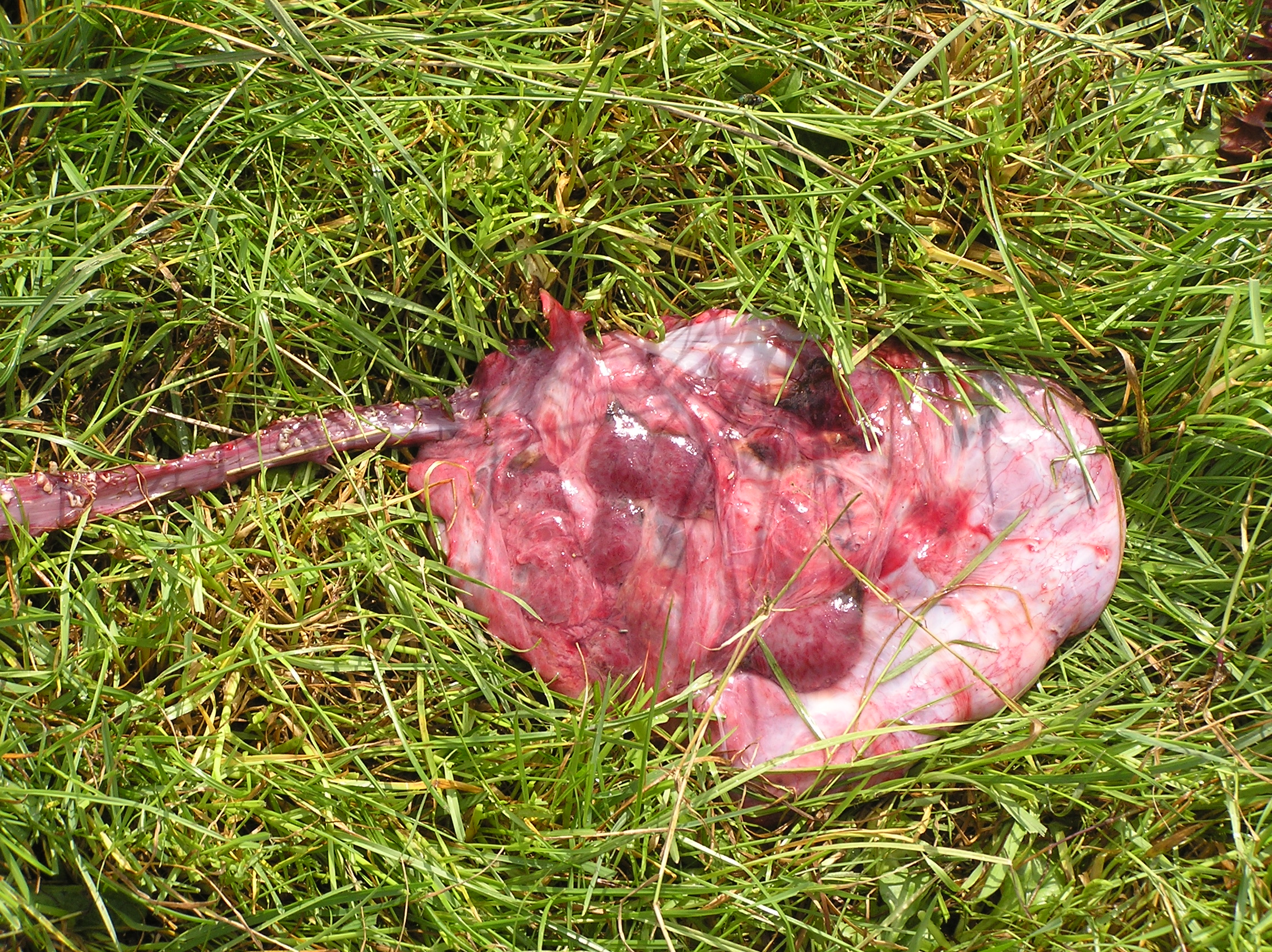 Sheep(mother 1 Hour after birth)